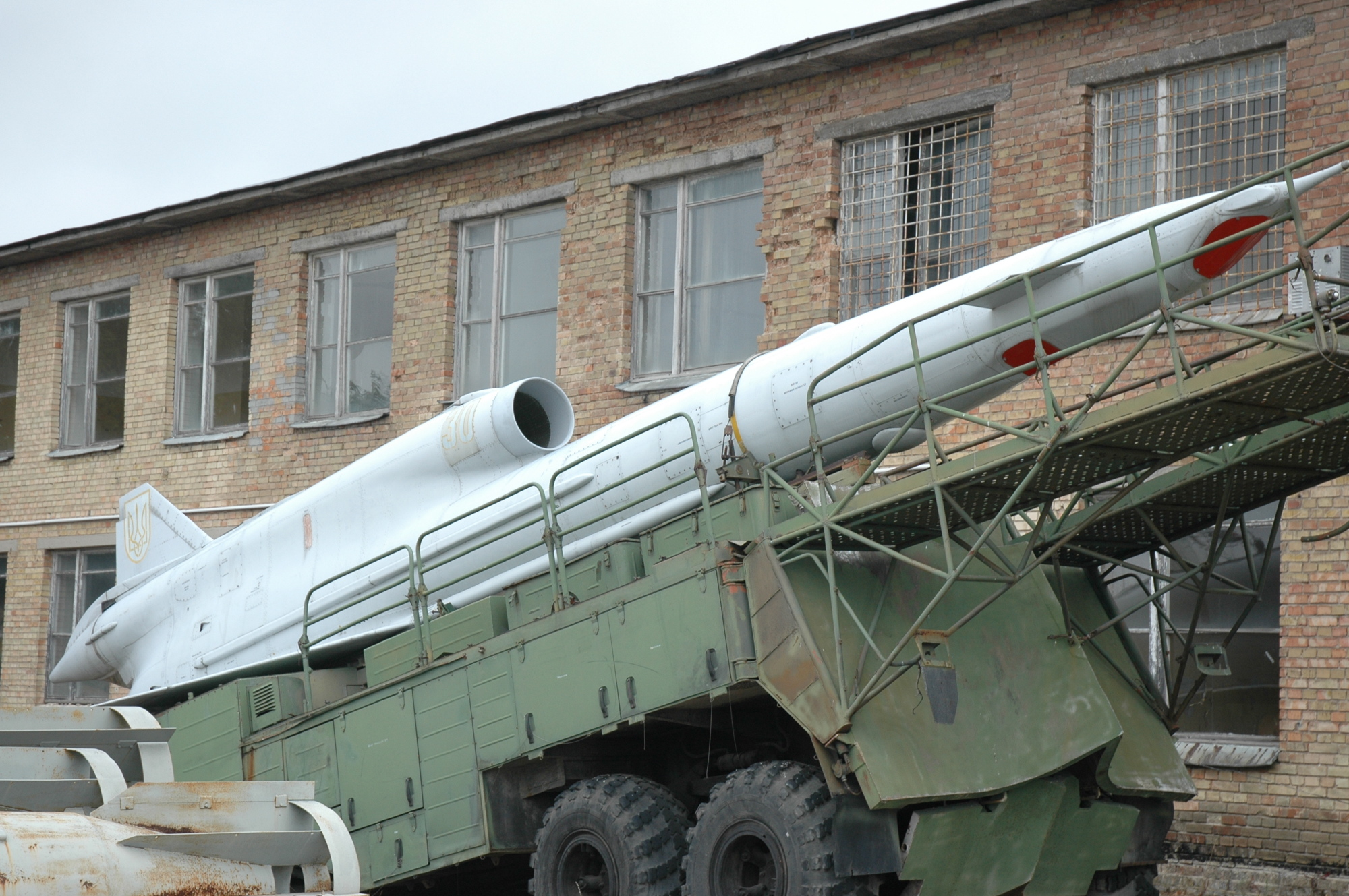 Tu-141 Soviet reconnaissance drone (Kyiv, Ukraine)